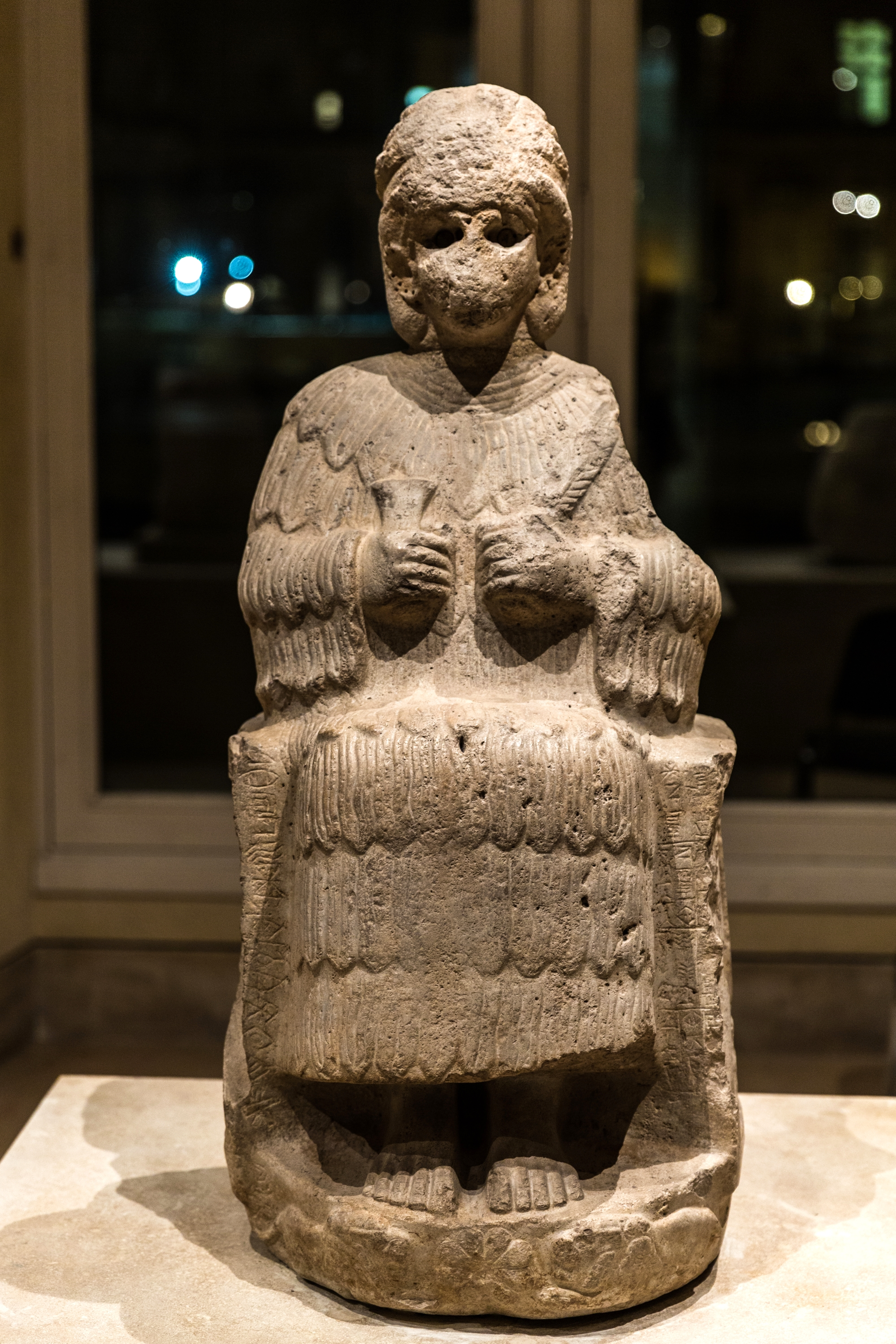 Louvre, Paris, Department of Near Eastern Antiquities: Iran Statue of the Goddess Narundi Period of king Puzur-Inshushinak